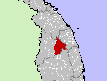 Kon Plong District, Kon Tum Province, Vietnam.